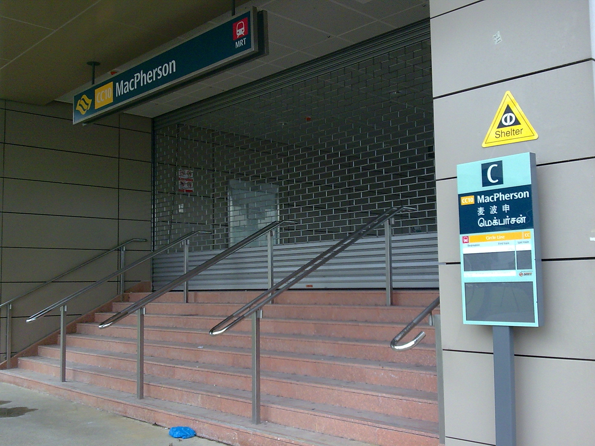 close up view of a station exit of MacPherson MRT Station on the Circle Line.